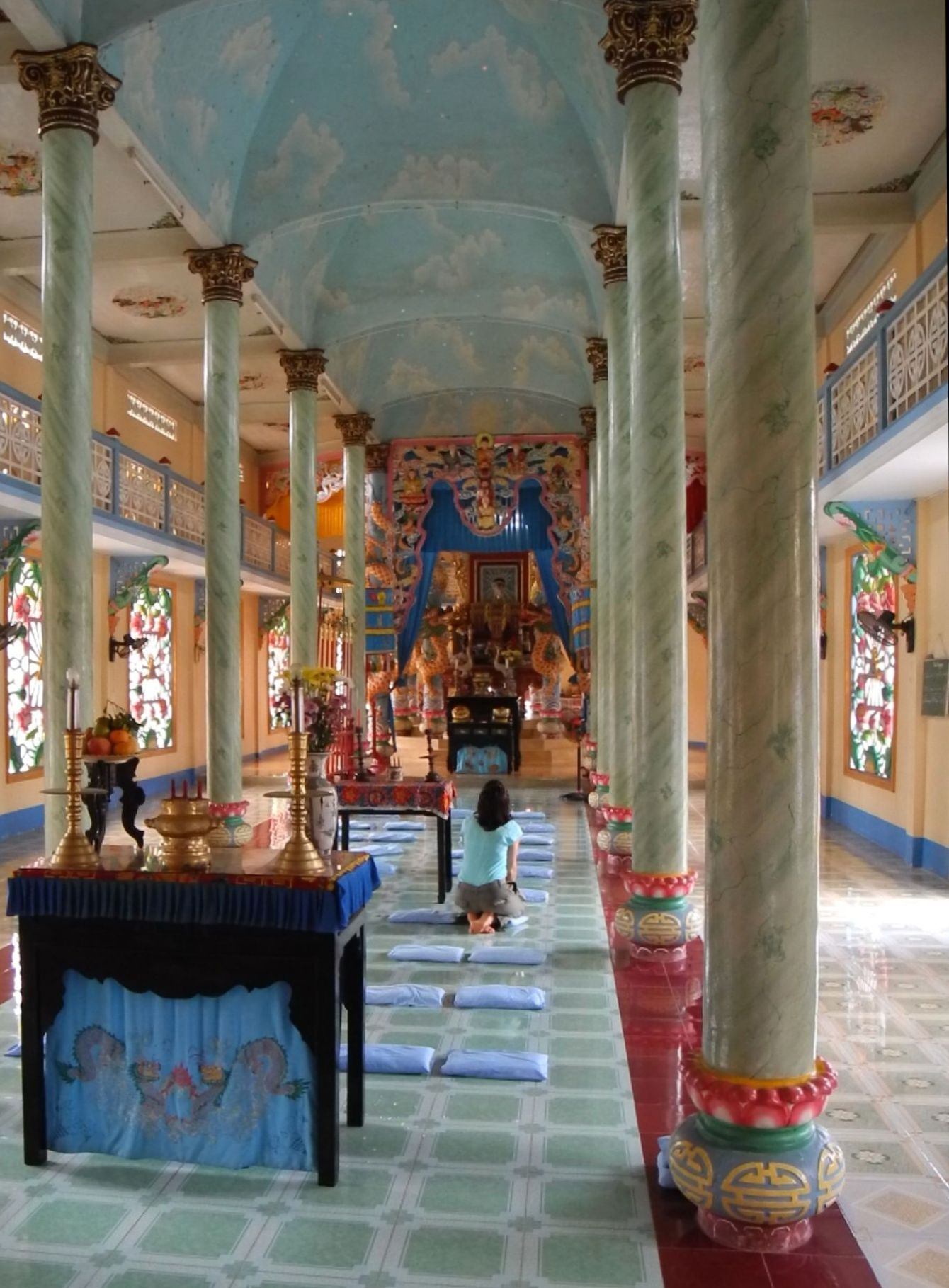 My Tho - Cao Dai Temple04